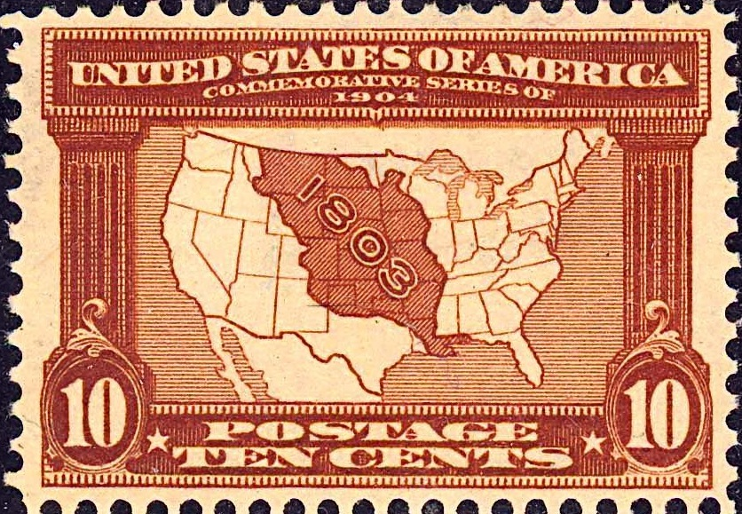 Louisiana_Purchase7_1903_Issue-10c.jpg